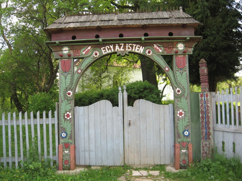 Calnic. Covasna County, Unitarian church, Church gate